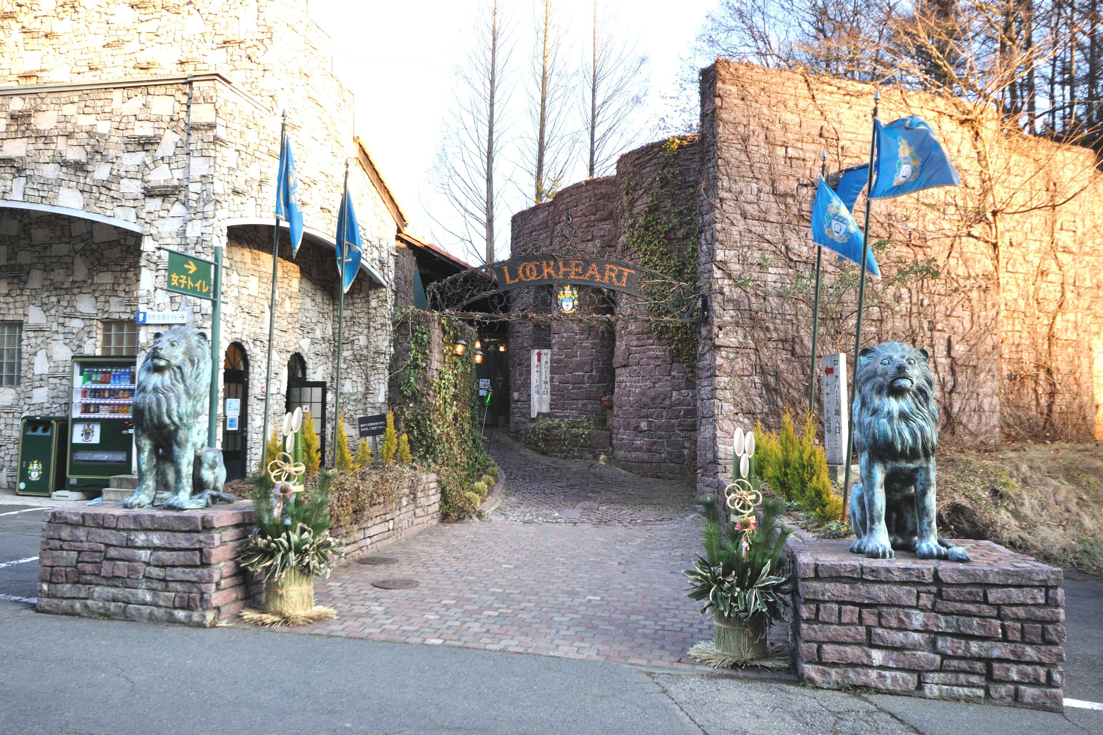 Photograph of Marble Village Lockheart Castle entrance, it is amusement park in Takayama Village, Gunma Prefecture, this photo taken in December 26, 2009.